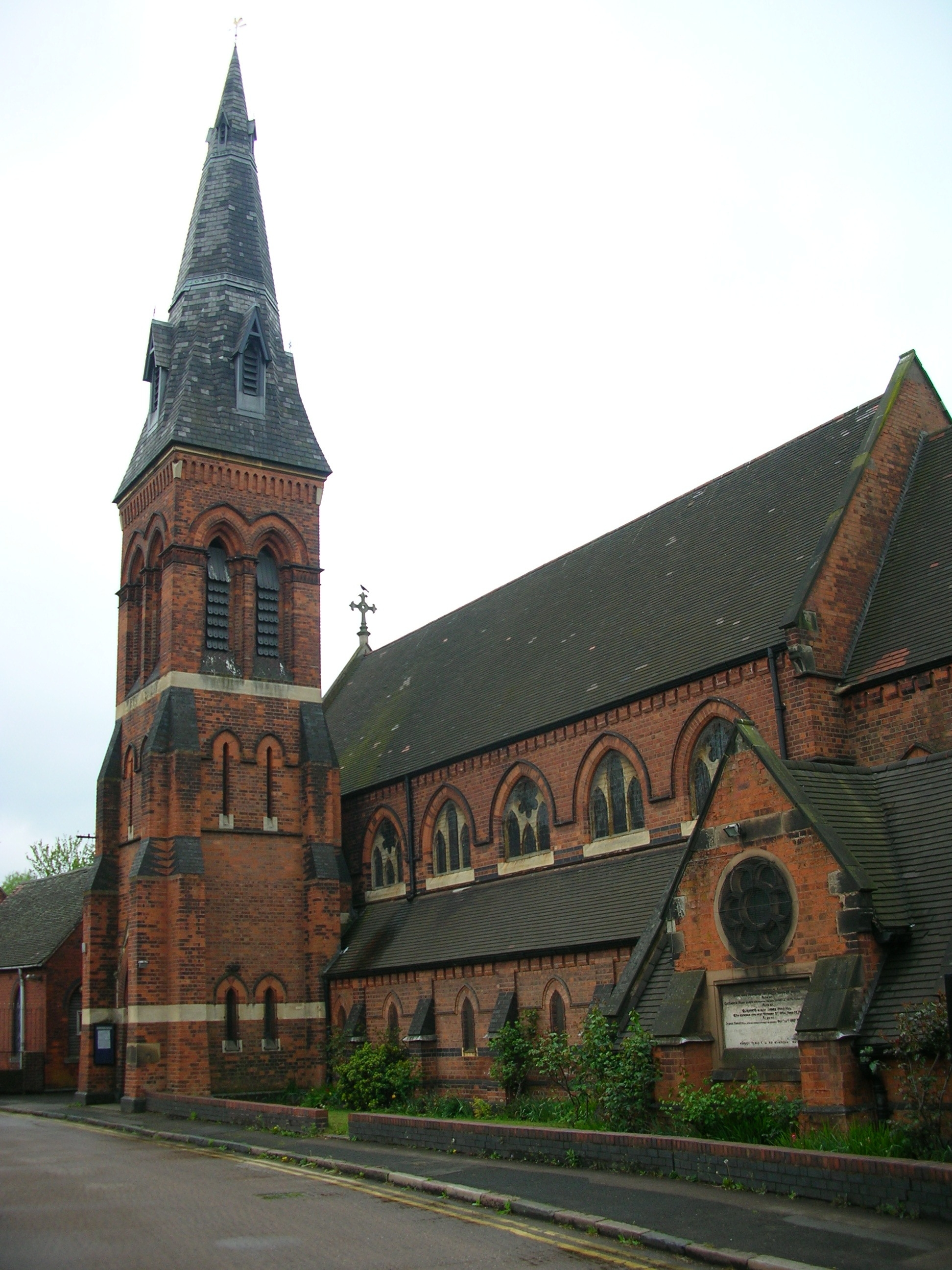 St Cyprian's parish church, Hay Mills, Small Heath, Birmingham, England.